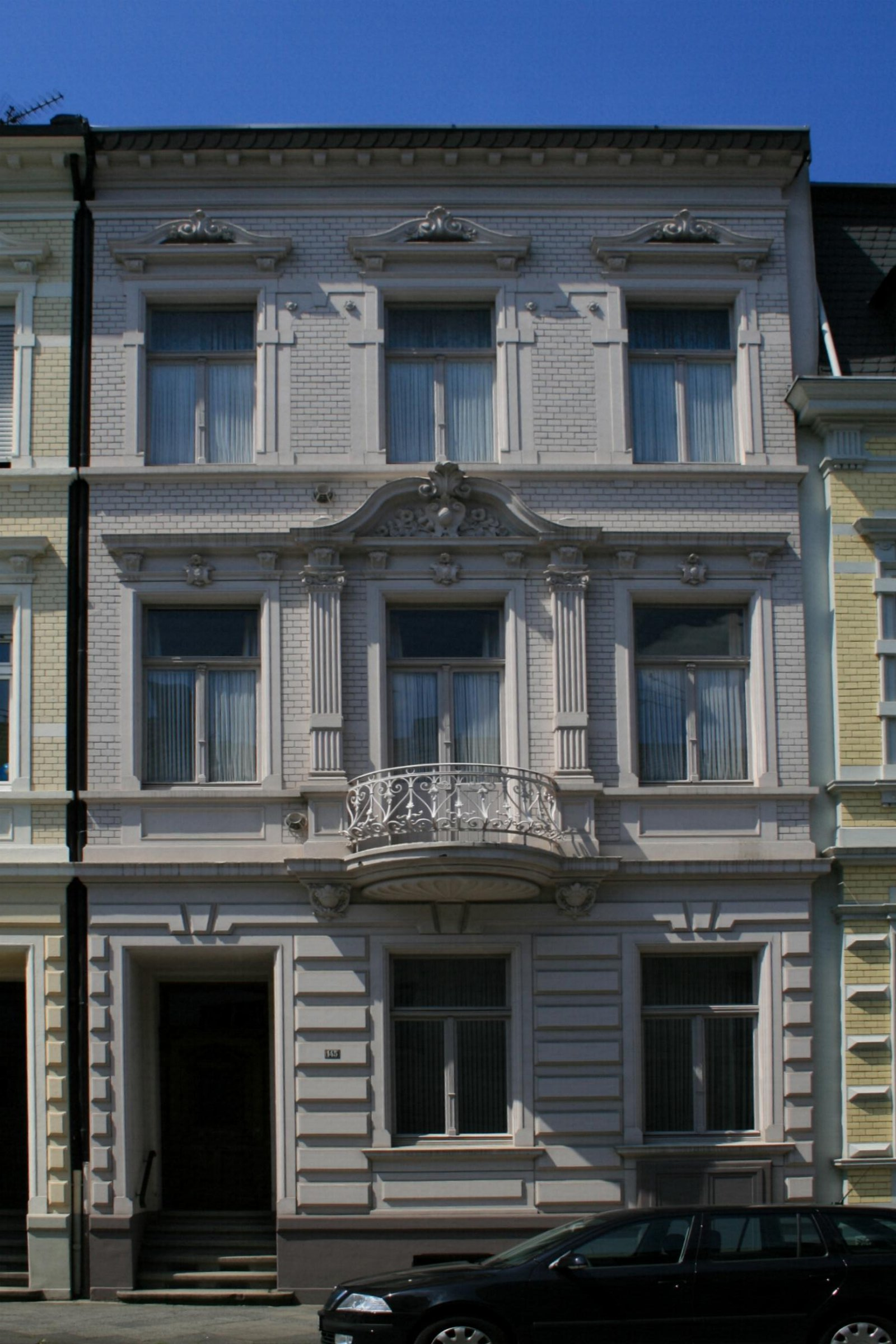 Cultural heritage monument No. K 067 in Mönchengladbach